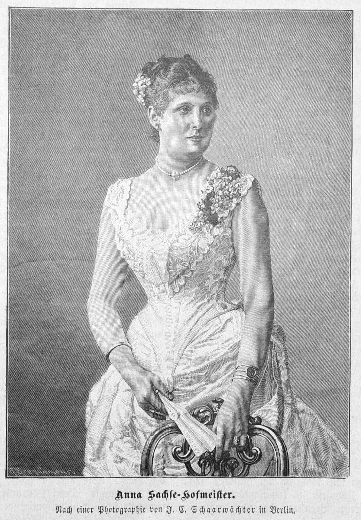 caption: "Anna Sachse-Hofmeister.Nach einer Photographie von J. C. Schaarwächter in Berlin."